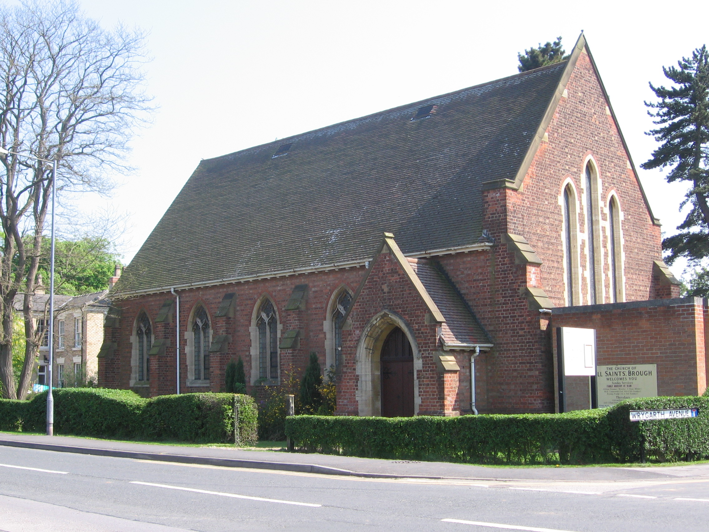 All Saint's Church, Brough, East Riding of Yorkshire, England.